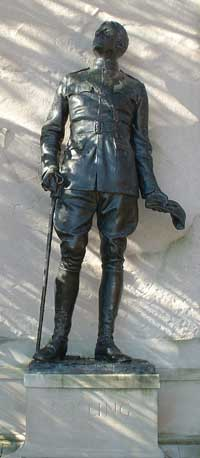 Col. Raynal C. Bolling Memorial, Greenwich, Connecticut (1922), Edward Clark Potter, sculptor. Photo by Wikipedia user Caltrop.